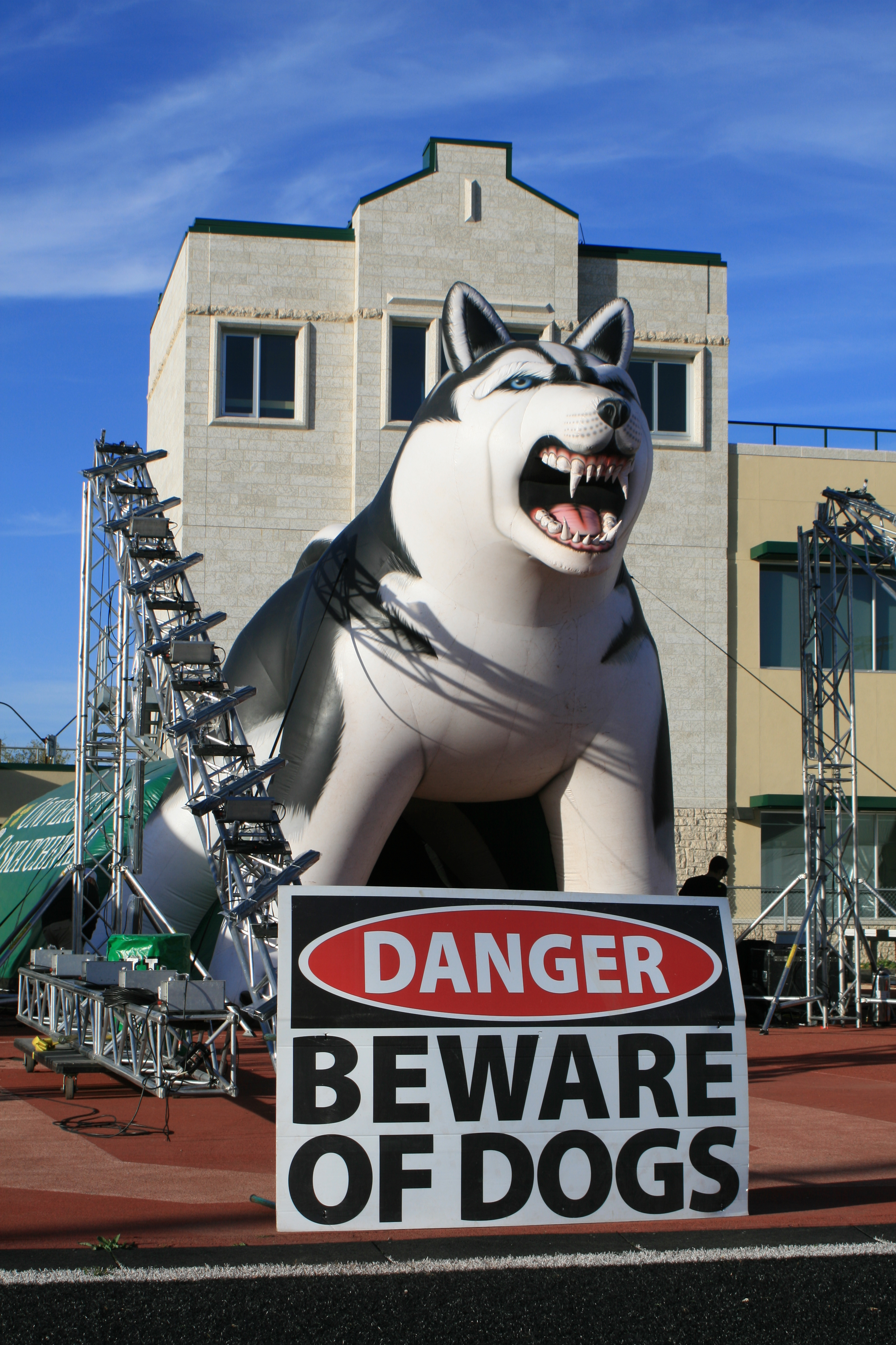 The Saskatchewan Huskies mascot Jake in front of the Graham Huskies Clubhouse prior to a game.